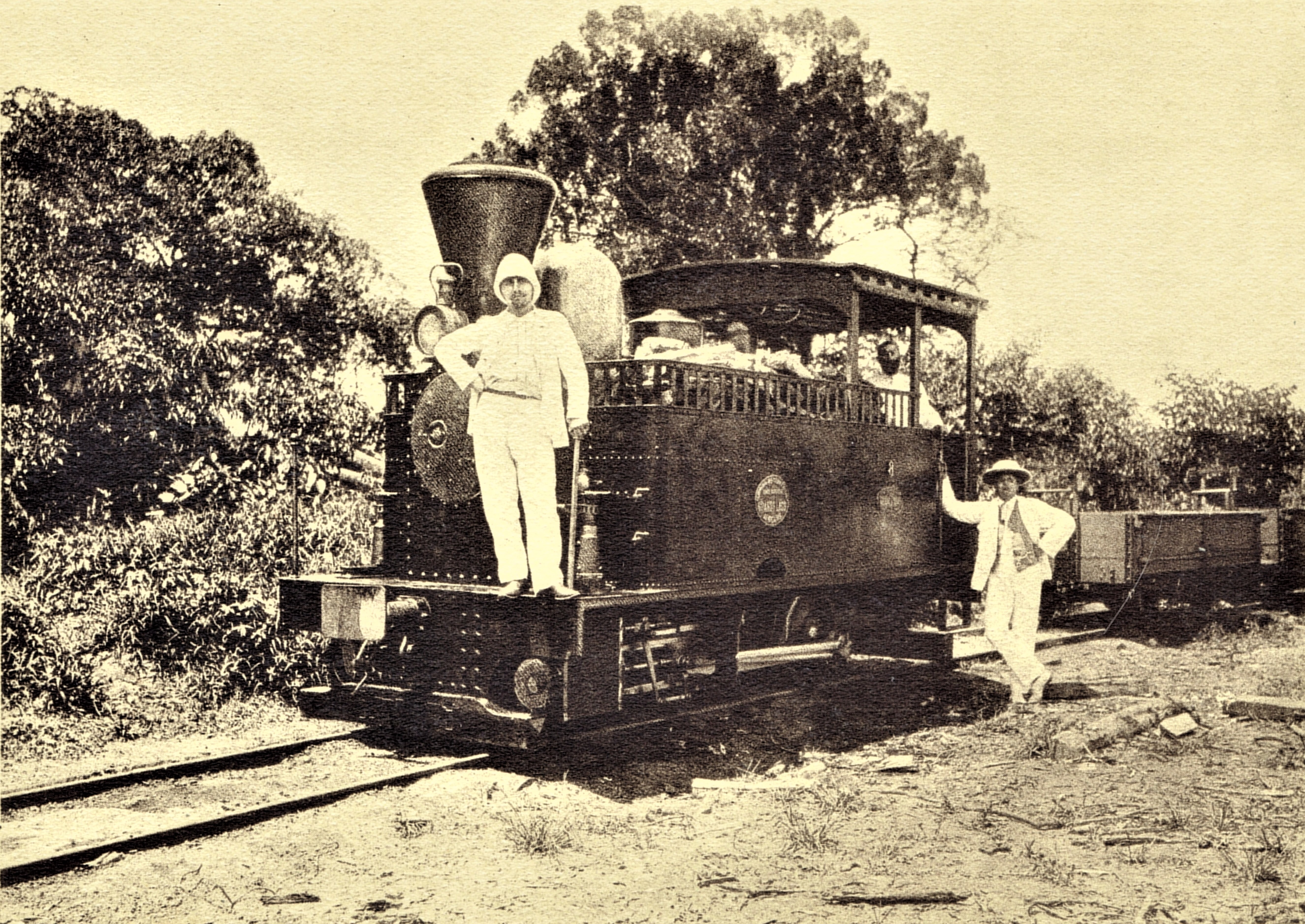 Africa Railways - Coquilhatville (Congo Belge) in 1910 - Chemins de fer du Congo Superieur - 0-4-0ST steam locomotive (vintage postcard) Colonial-era Congo in a vintage postcard showing three smartly-dressed European settlers posing for the camera in front of a steam locomotive operated by the Compagnie du Chemin de fer du Congo Supérieur aux Grands Lacs africains